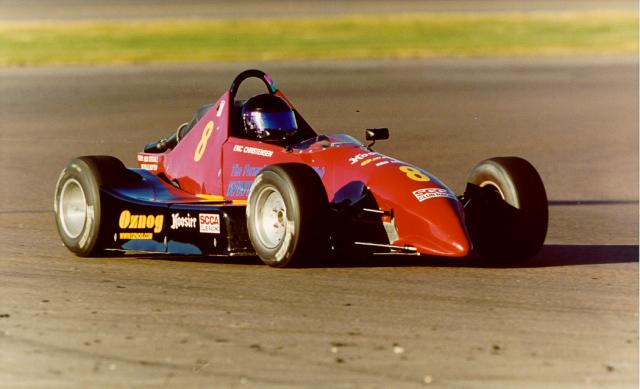 Eric Christensen at Phoenix International Raceway, January 2001. Original photo copyright 2001 by Eric D Christensen.